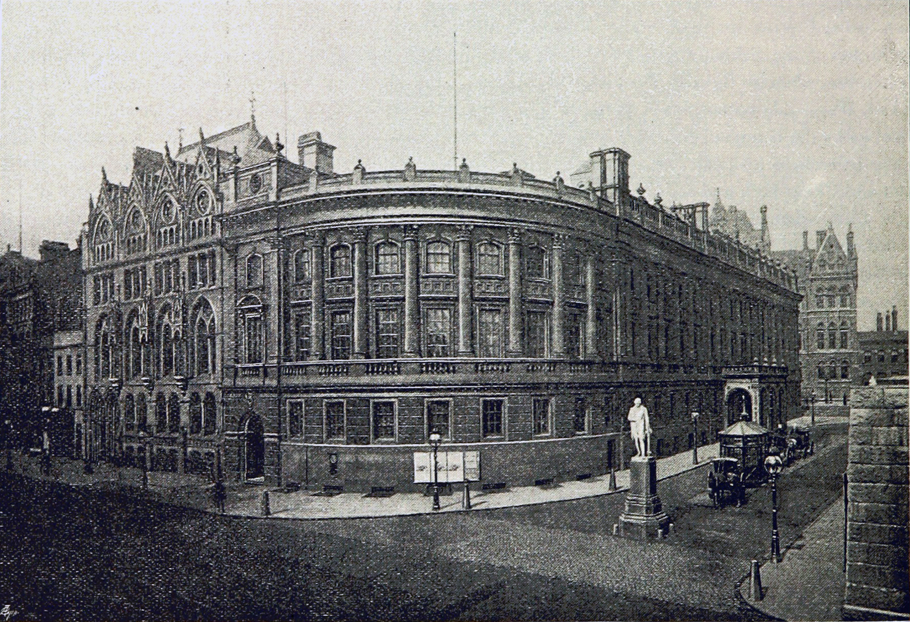 Image extracted from page 598 of above. Original held and digitised by the British Library. Note: The colours, contrast and appearance of these illustrations are unlikely to be true to life. They are derived from scanned images that have been enhanced for machine interpretation and have been altered from their originals.